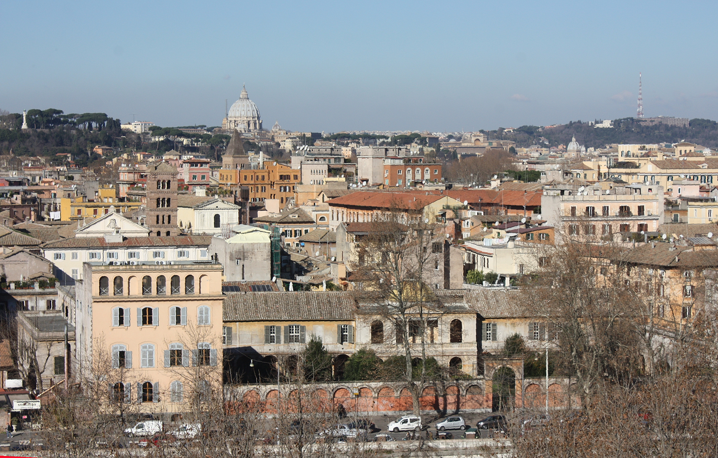 Rome, view from the Giardino degli Aranci to Trastevere